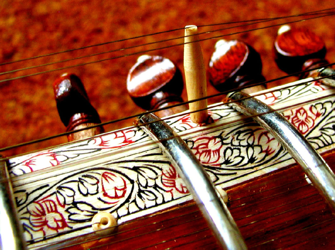 detail of two types of sitar mogara